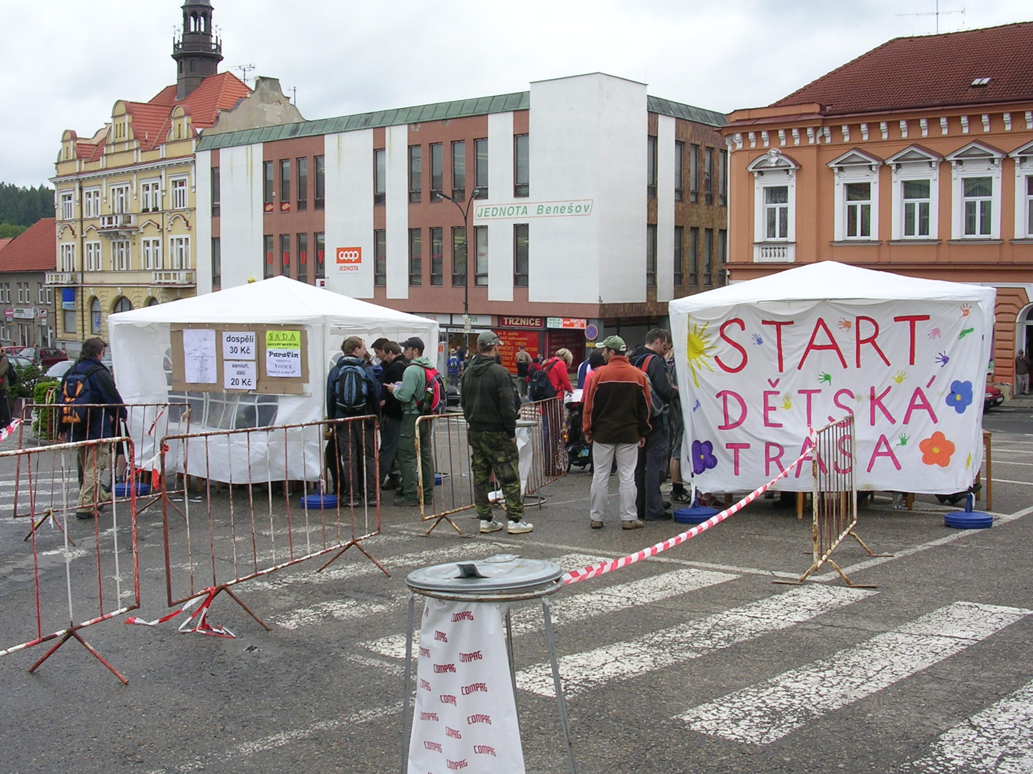 Votice, Benešov District, Central Bohemian Region, the Czech Republic.